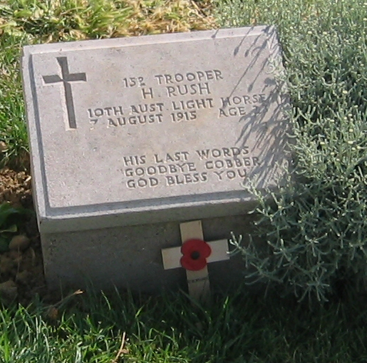 Trooper Harold Rush's headstone in Walker's Ridge Cemetery near Anzac Cove in the Gallipoli Peninsula. Digital photo taken on 23 May 2006.